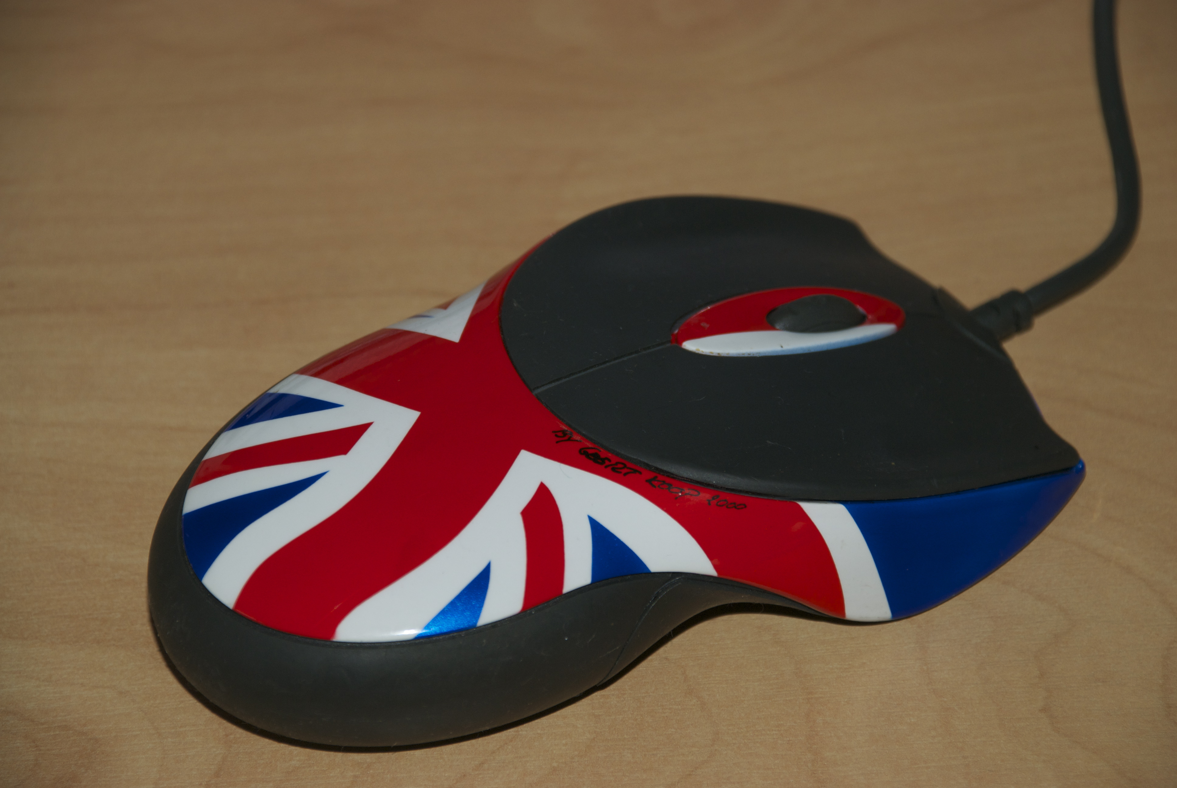 Photo of Sujoy Roy's customised union flag painted Razer gaming mouse, a "Razer Boomslang" model. [Sujoy_Roy]